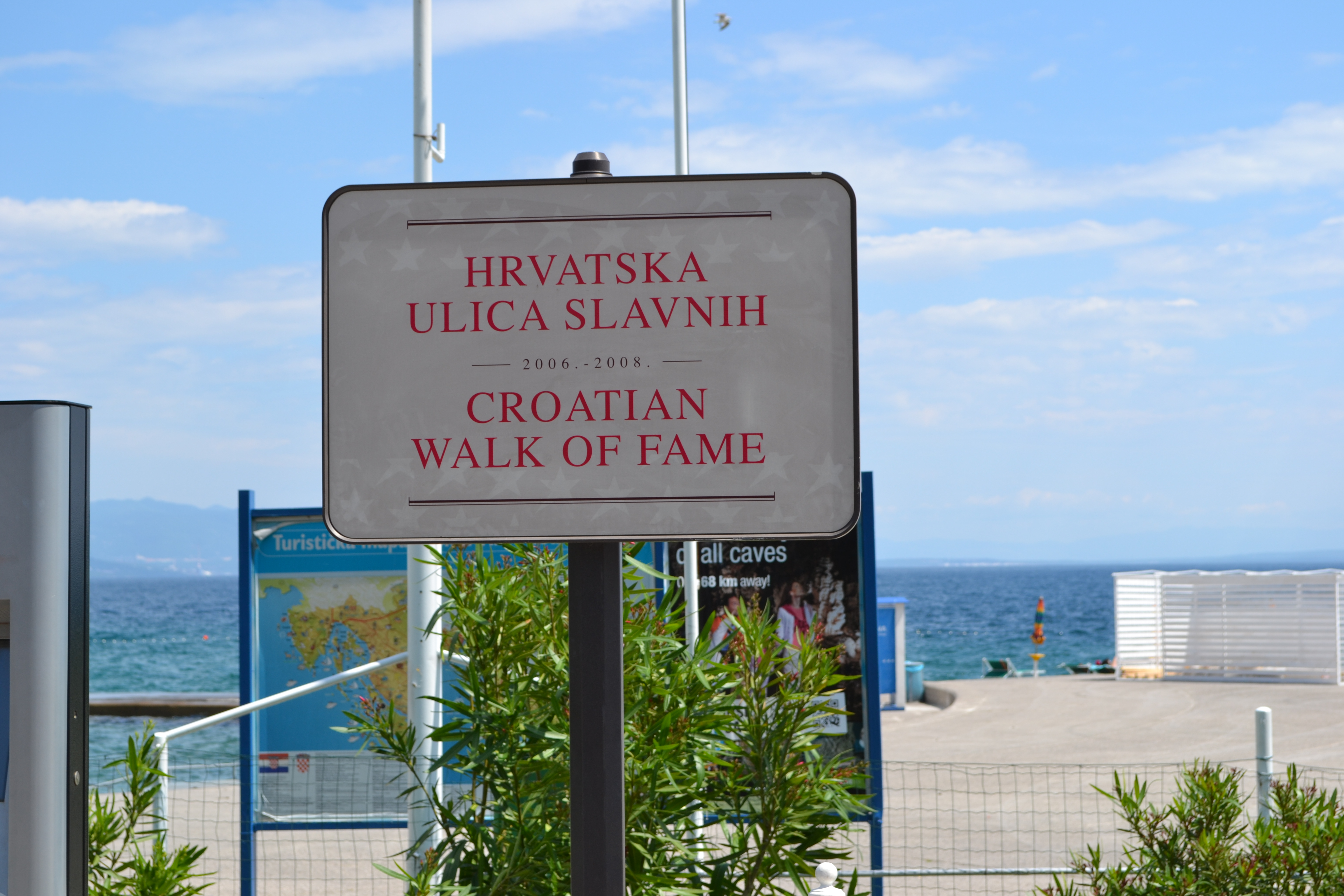 Croatian walk of fame, Opatija, Croatia